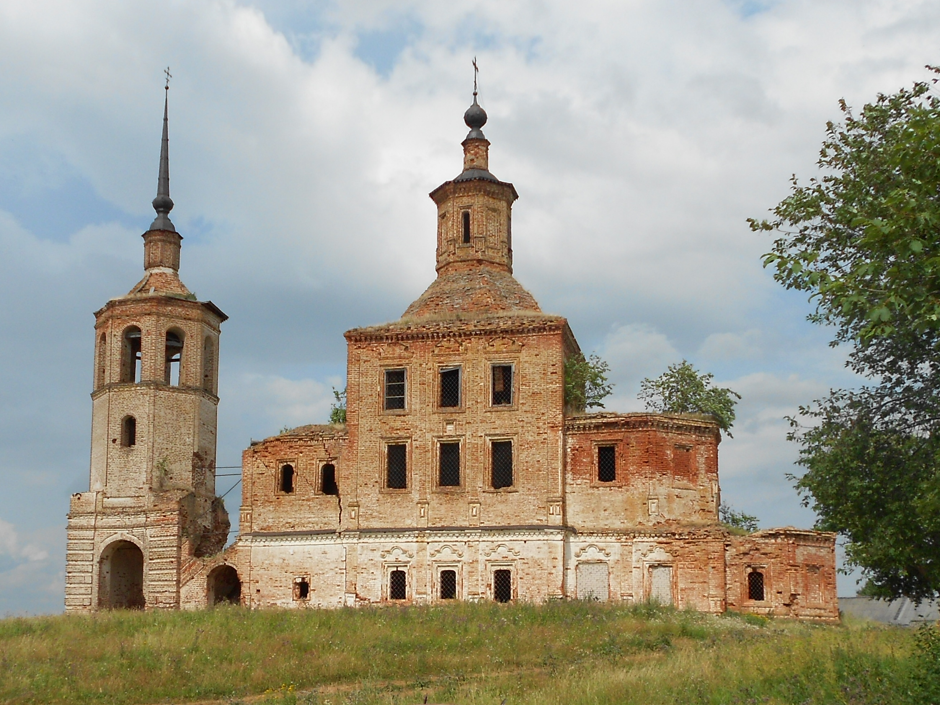 Church of the Life-giving Trinity (Votlozhma, Arkhangelsk Oblast, 1753)